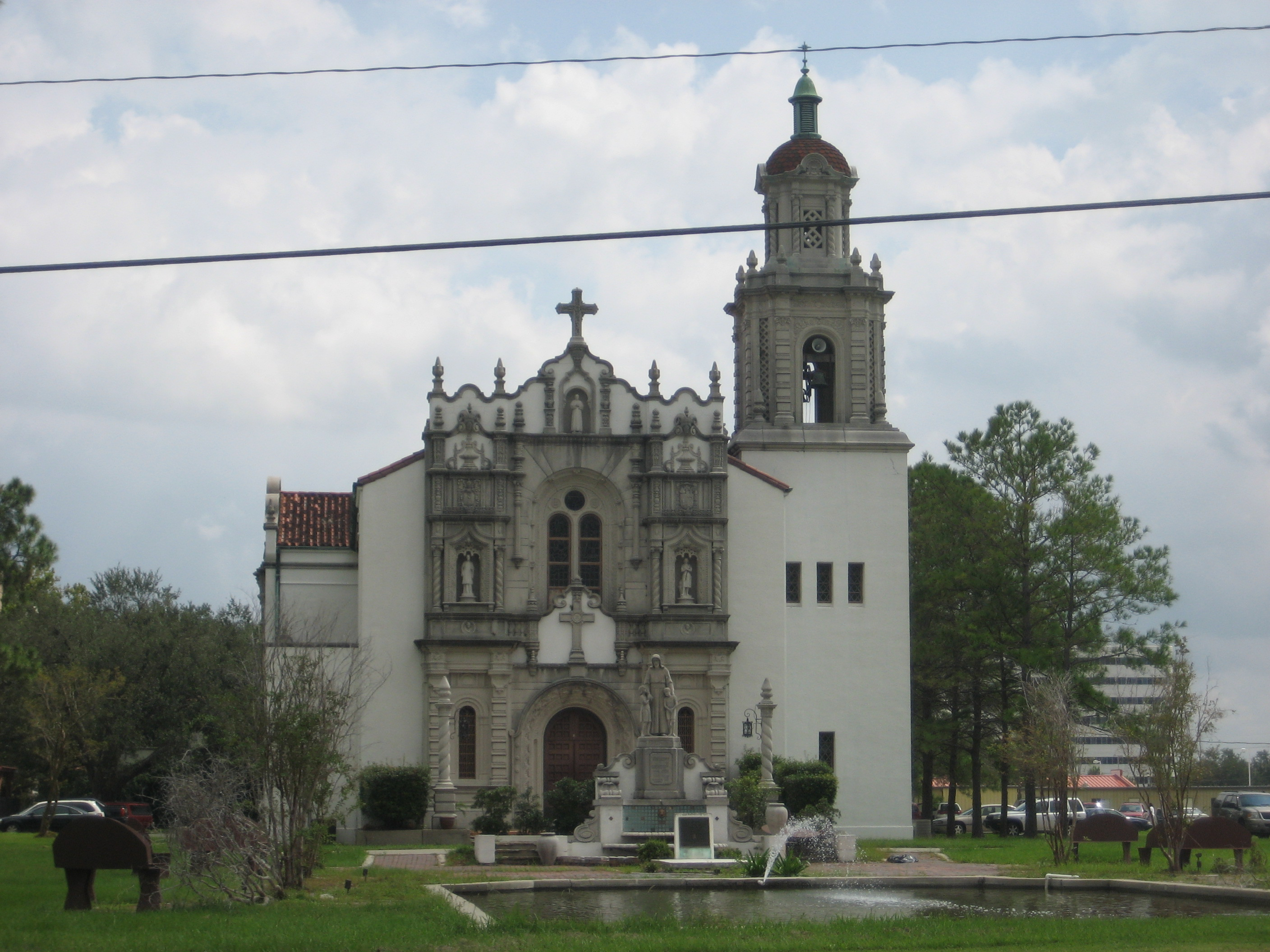 Saint John Bosco church, Marrero, Louisiana